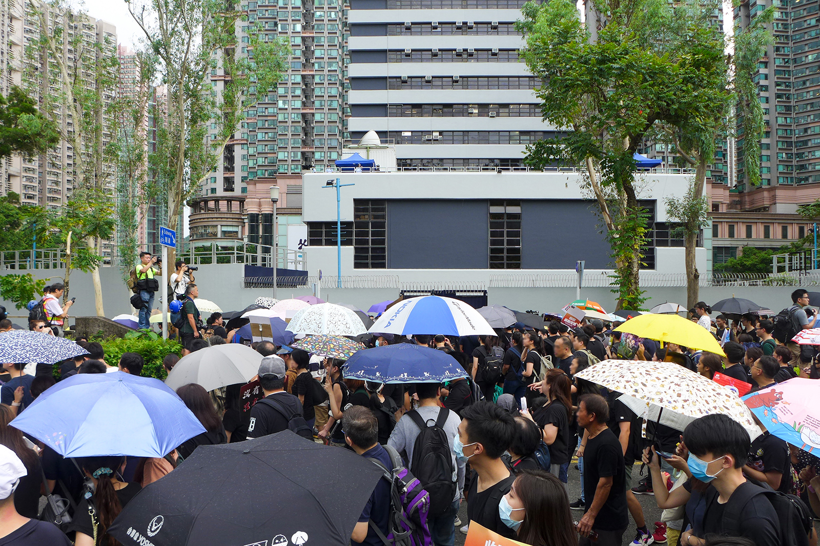 Po Lam Road North outside pollice station_